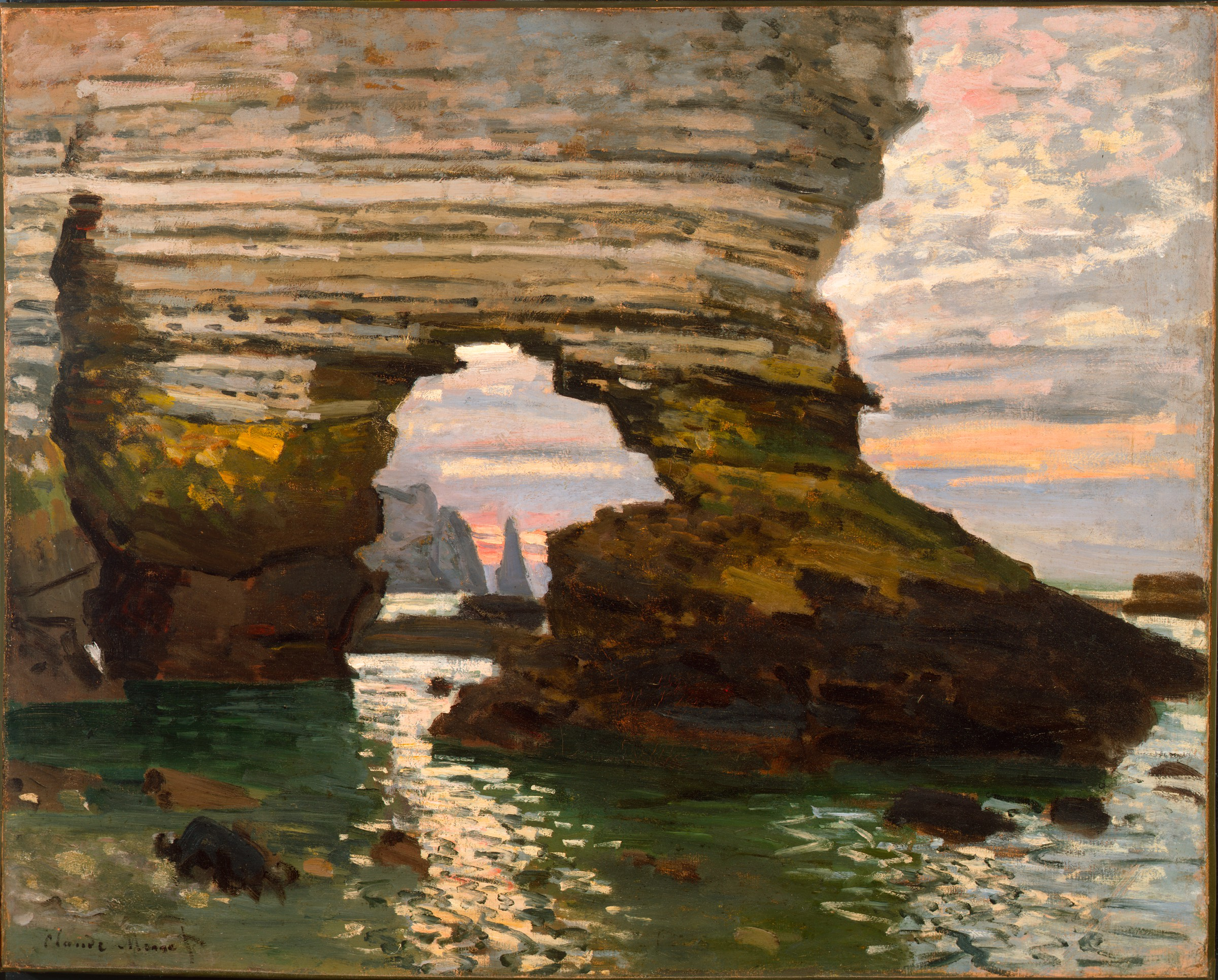 La Porte d'Amont, Étretat